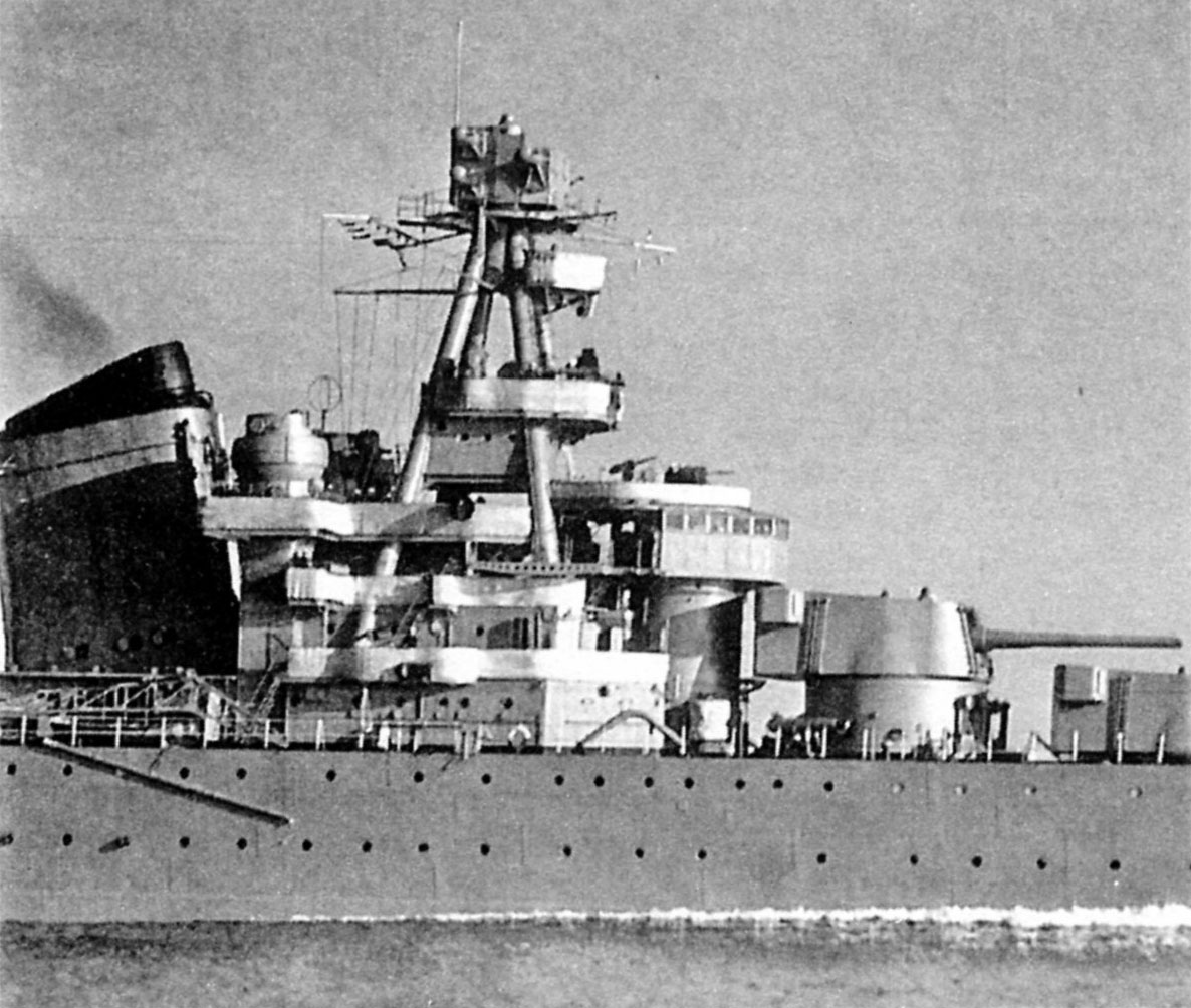 The Soviet cruiser Kirov, 1938-1939.